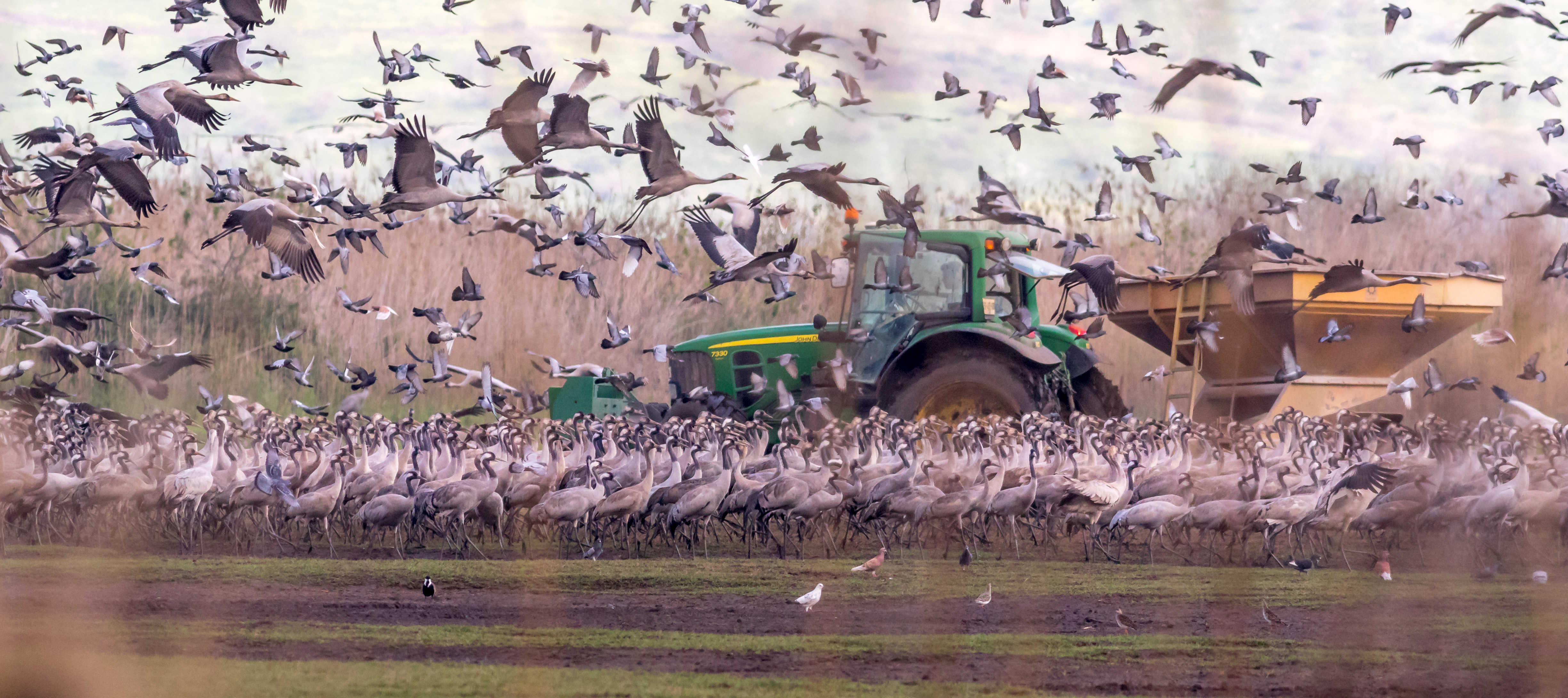 Thousands of Common cranes migrant through Agamon Hula Valley in Israel. they used to raid farmland and cause significant damage to agriculture in the region. The Crane Project in the Hula Valley protect the cranes and farmland using daily Feeding in the Agamon Hula Nature reserve and controlling their food sources. more info: The Crane Project in the Hula Valley